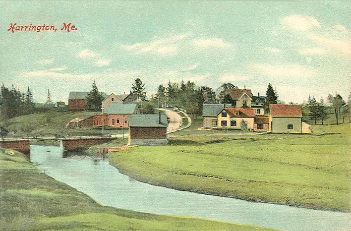 View of Harrington, ME; from a c. 1908 postcard published by F. E. Fairfield.